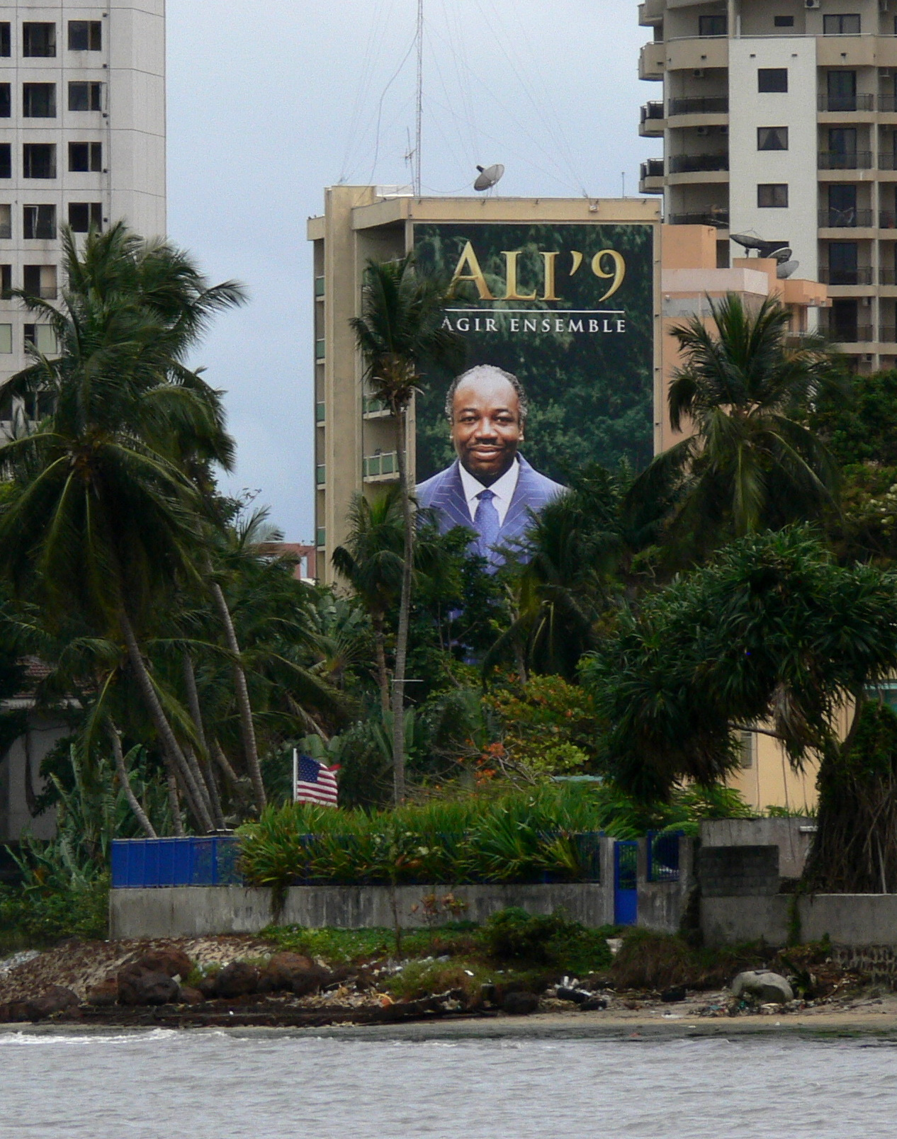 Ali Bongo's campaign for the election in Gabon in 2009.